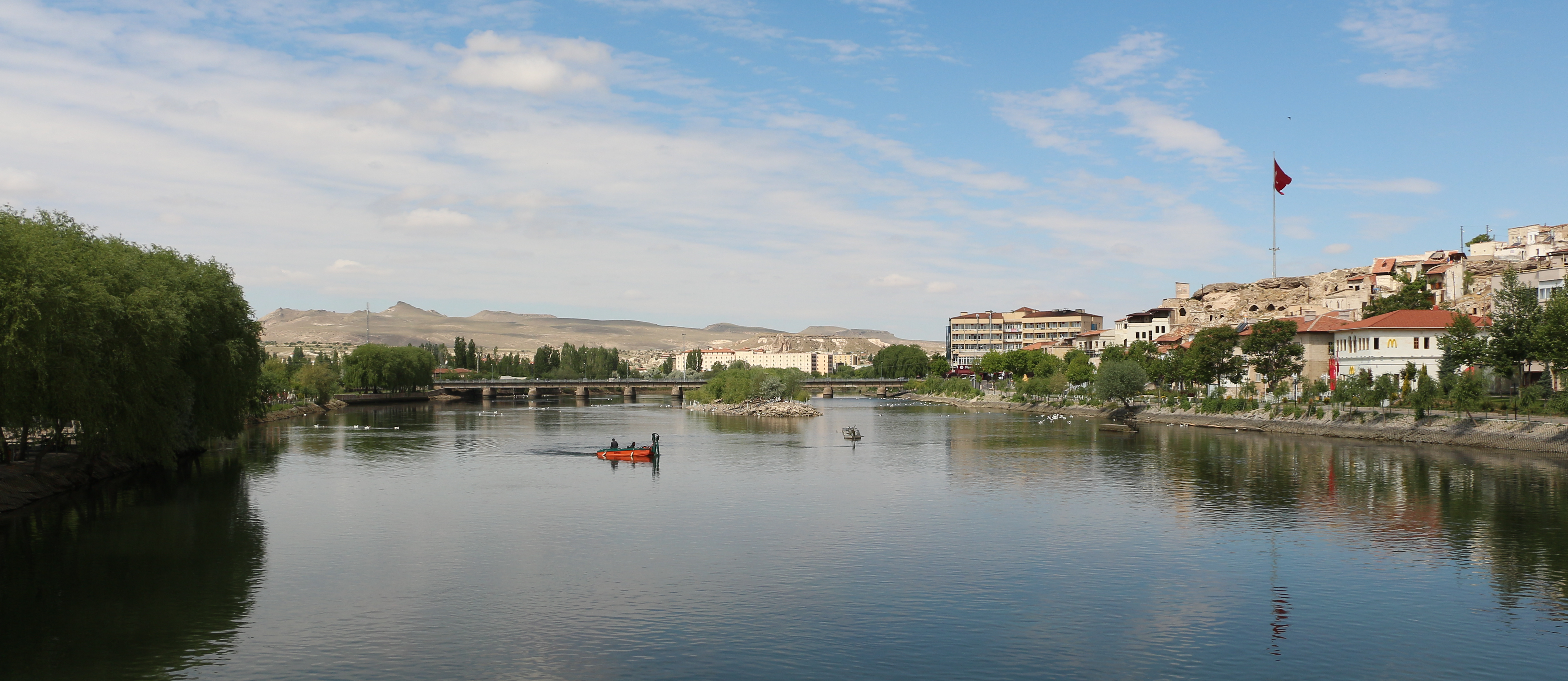 Kızılırmak River in Avanos, Turkey